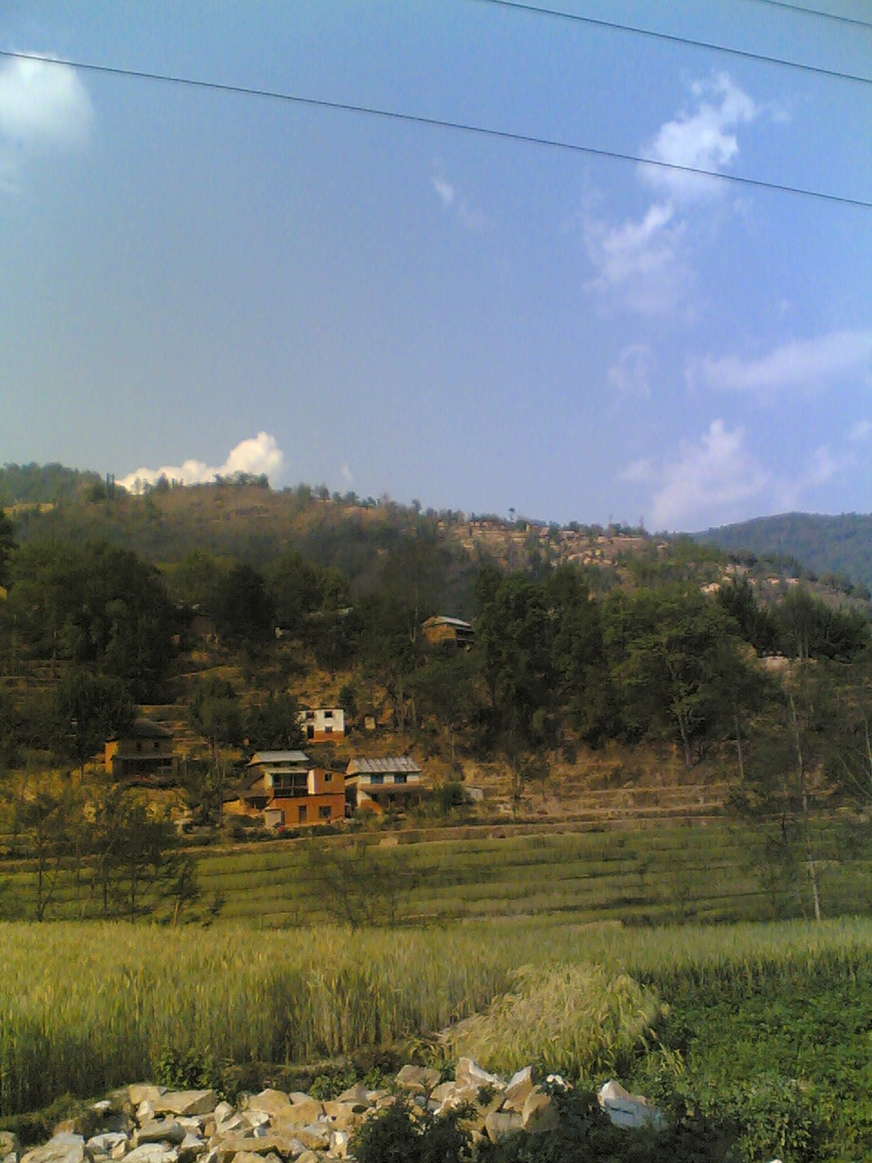 Image of Dahachowk